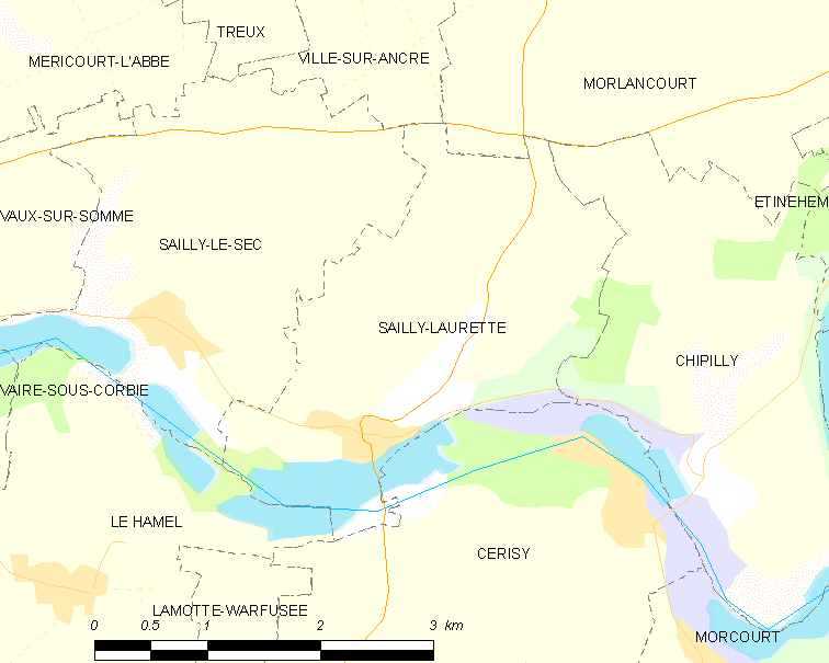 Map of French municipality Sailly-Laurette